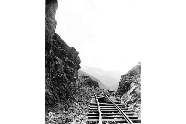 Caption on image: "Rock cut near turn-table W.P. & Y.R.R." Original image in Hegg Album 3, page 33 . Original photograph by Eric A. Hegg B283; copied by Webster and Stevens 438.A. Subjects (LCTGM): Railroad tracks--Alaska Subjects (LCSH): White Pass & Yukon Route (Firm)